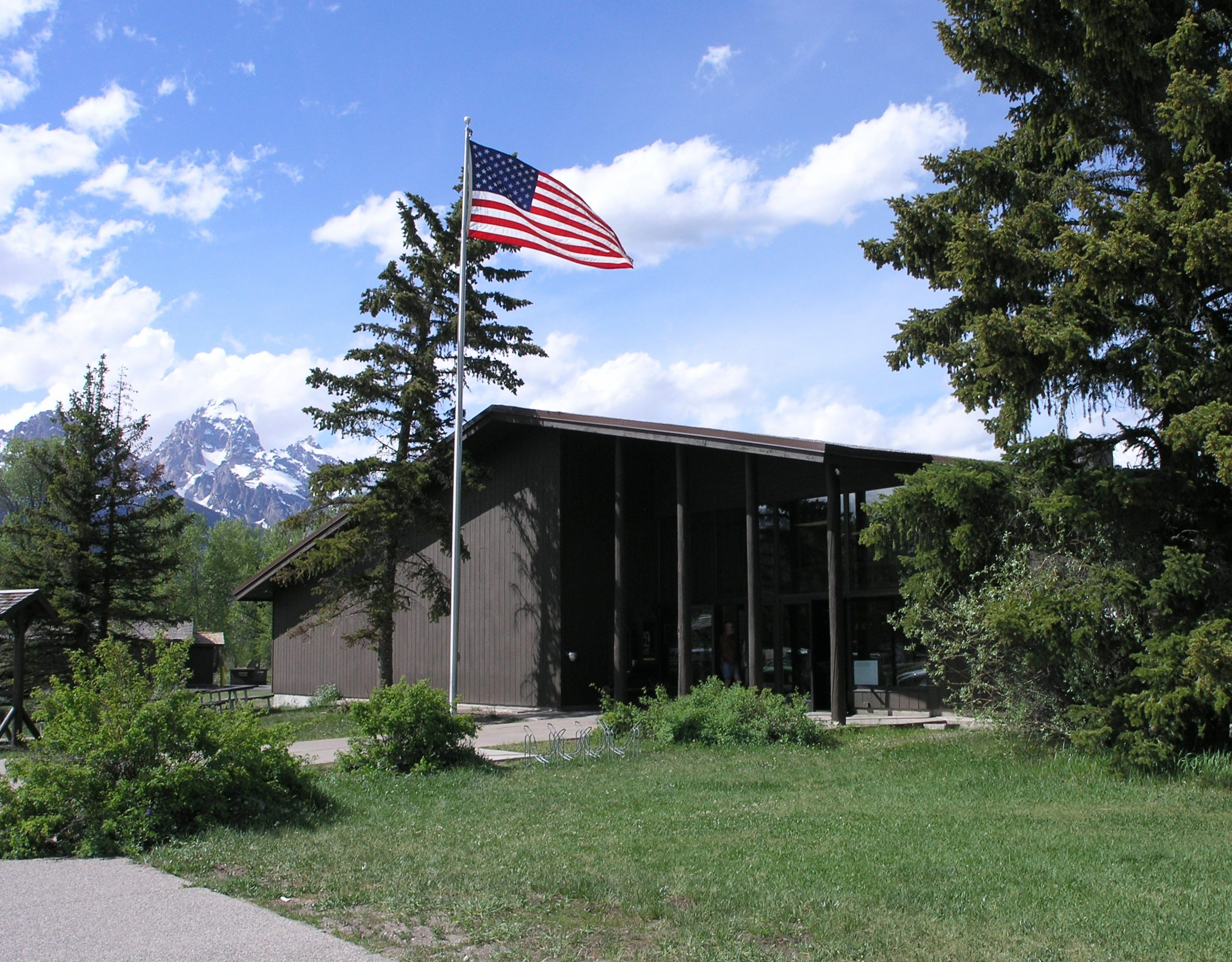 Photo in or around Grand Teton National Park